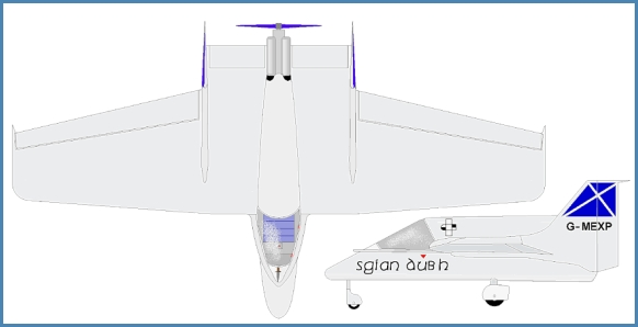 _Lorimer_SgianDubh Flying Wing